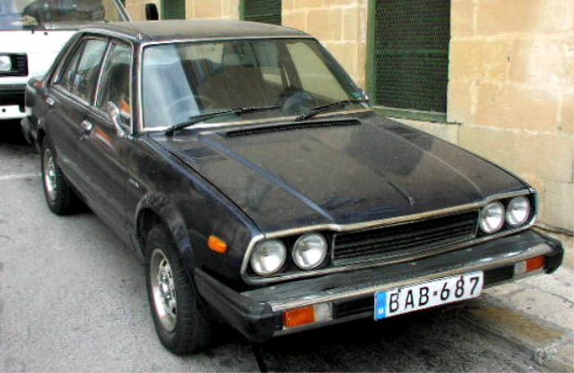 Honda Accord Sedan 1st Generation